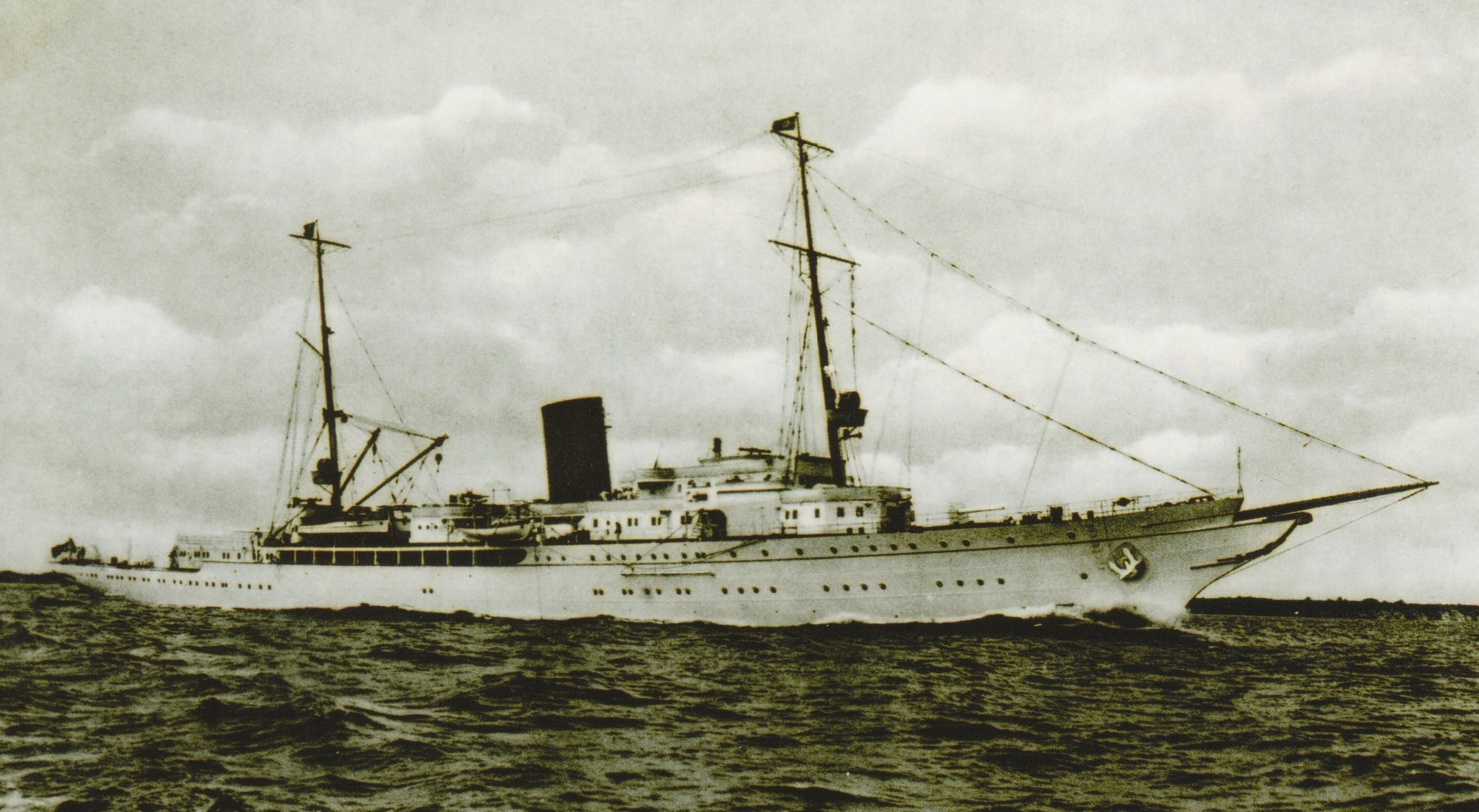 The German government yacht Grille in WW2.